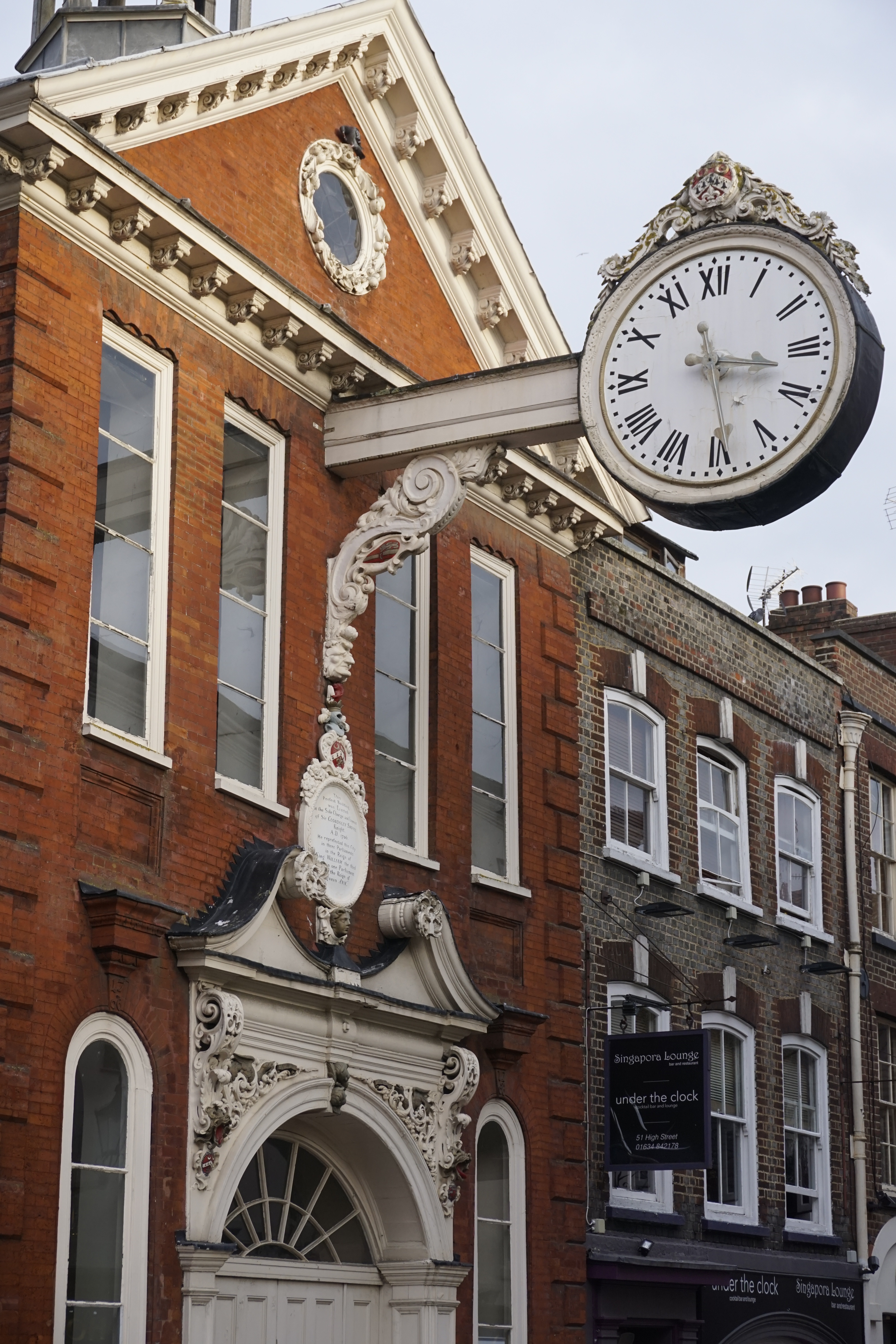 Old Corn Exchange with its huge clock